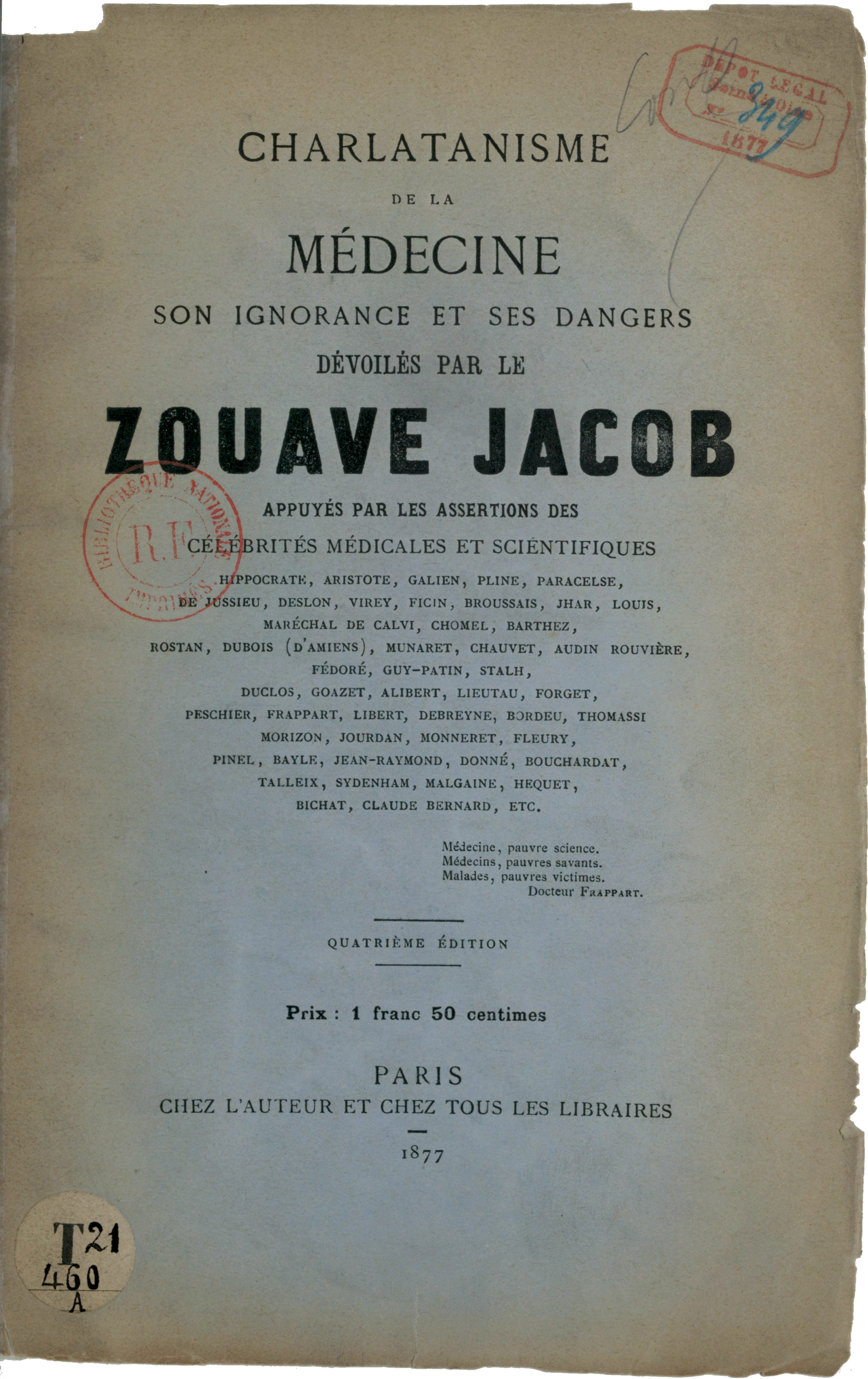 Book cover